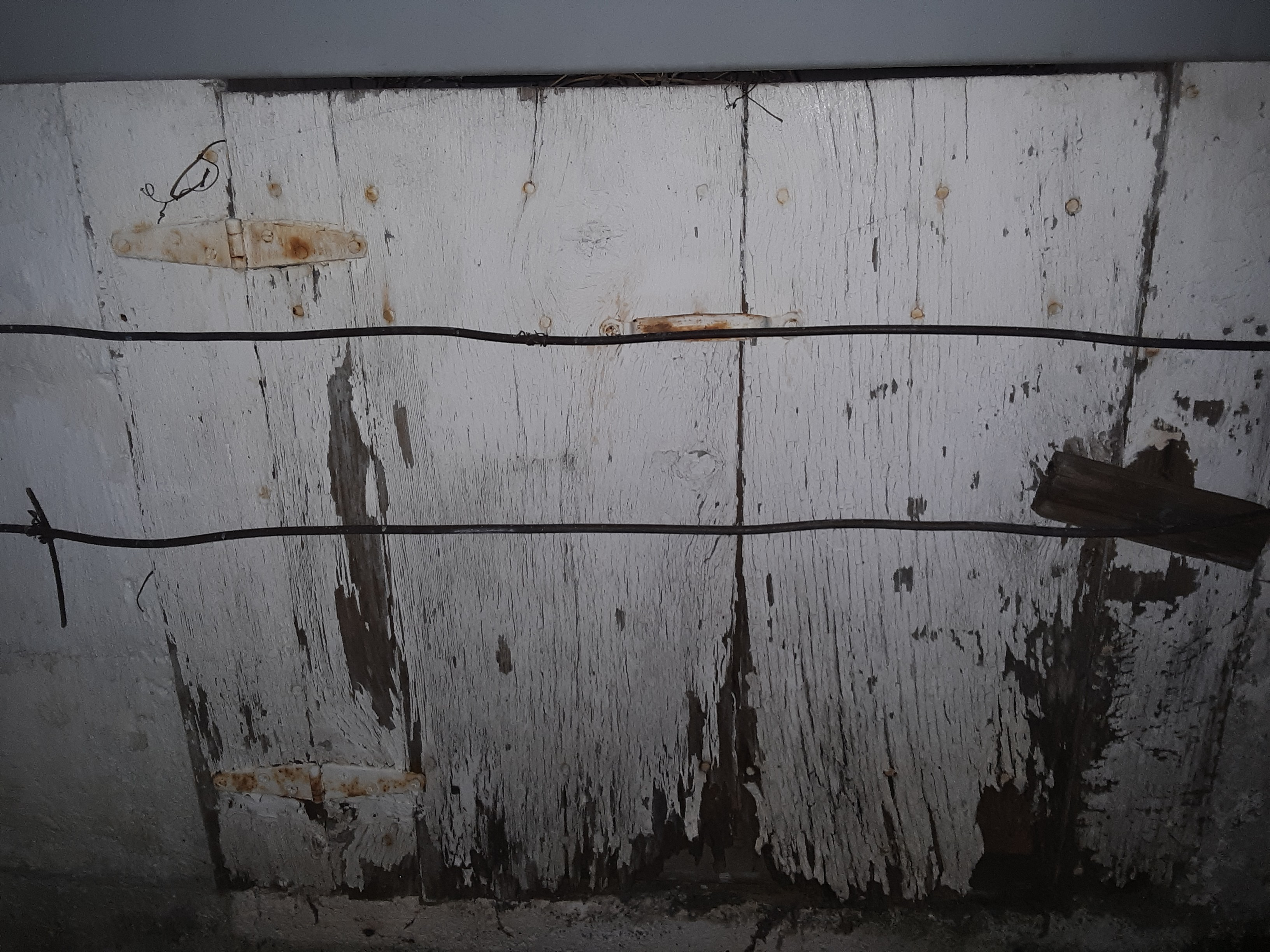 Crawlspace access panel